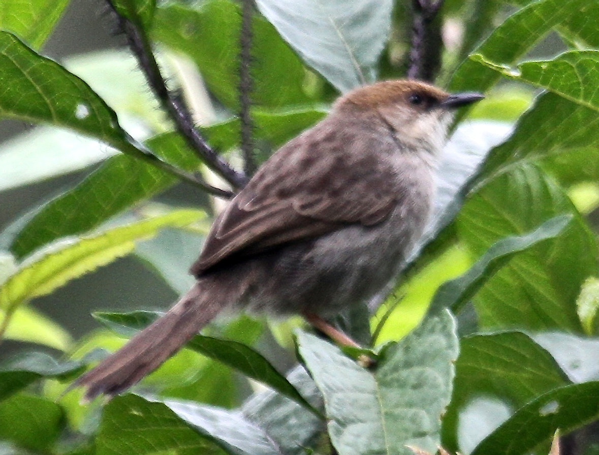 Gatamayu Forest - Kenya